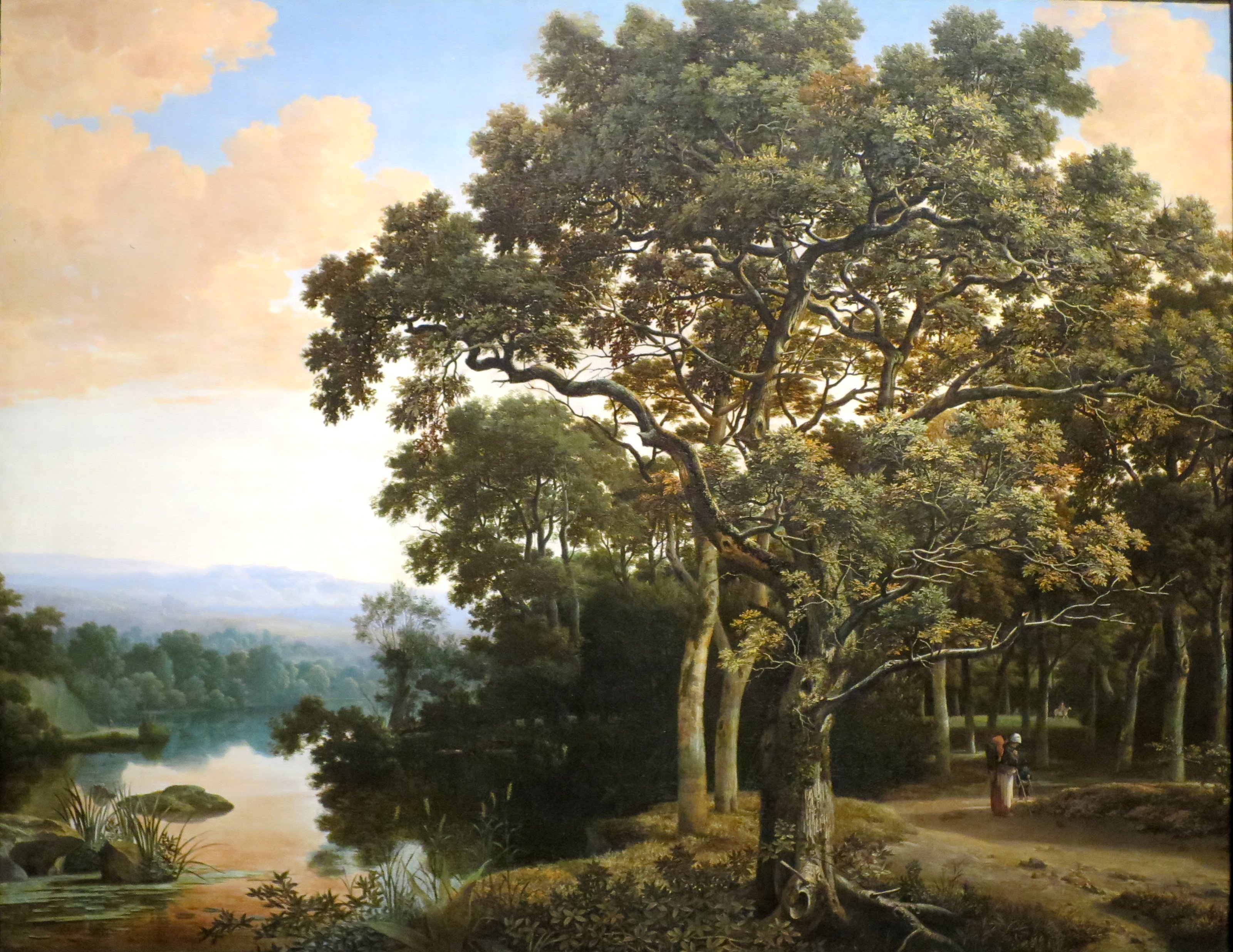 A Wooded Landscape with Travelers